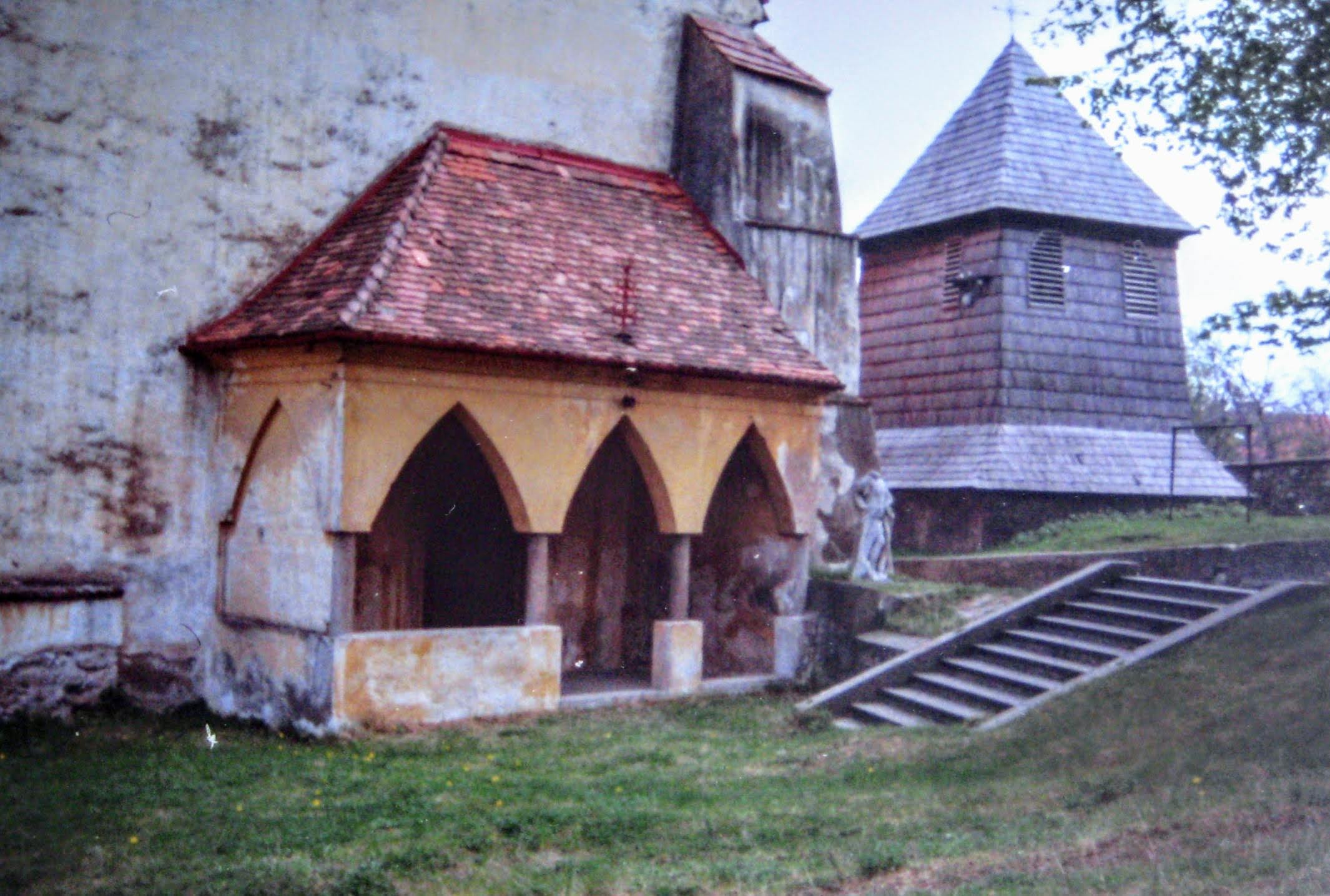 View from the West on the church